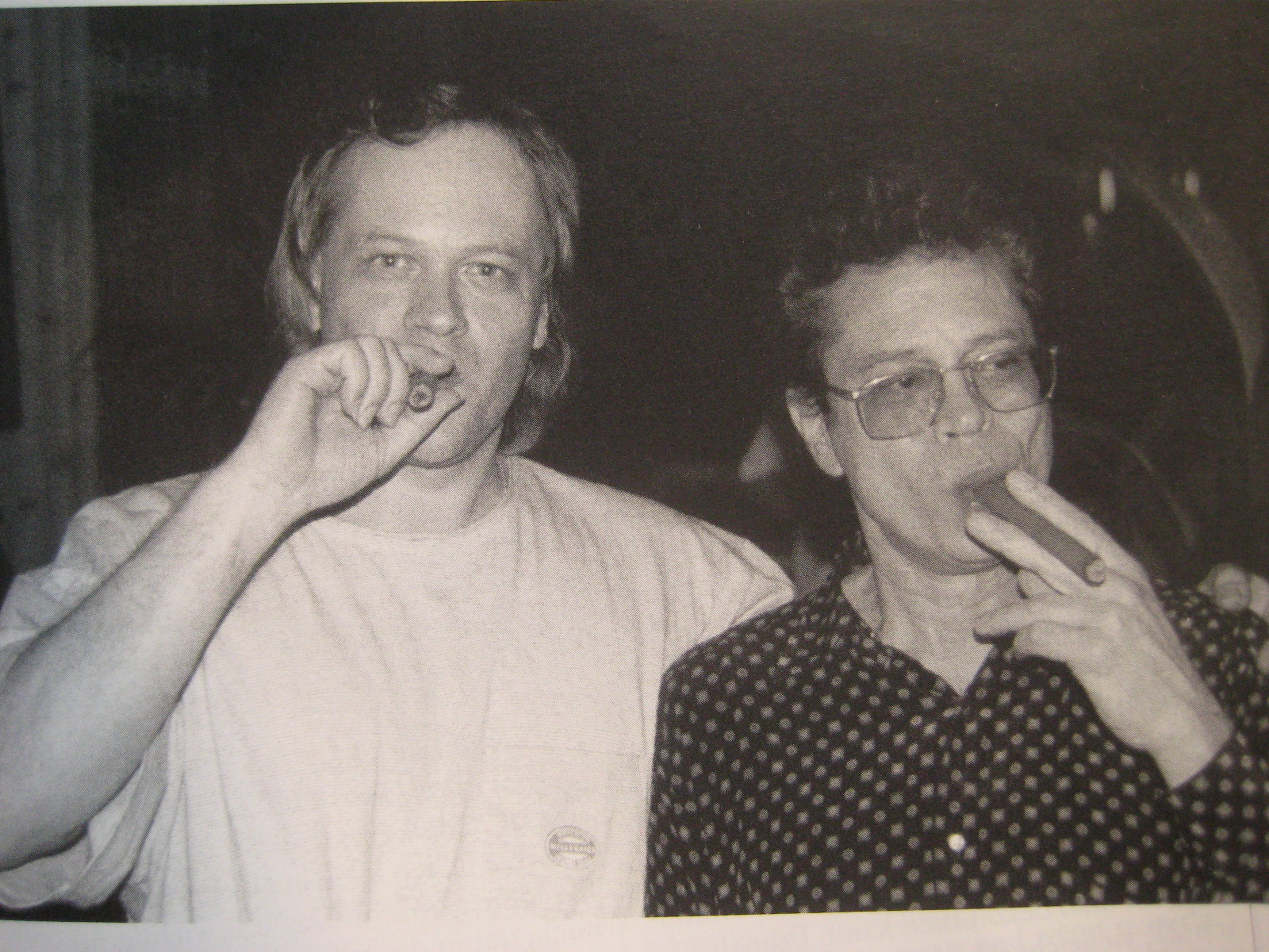 International Guitarfestival, Havana Leon and Leo